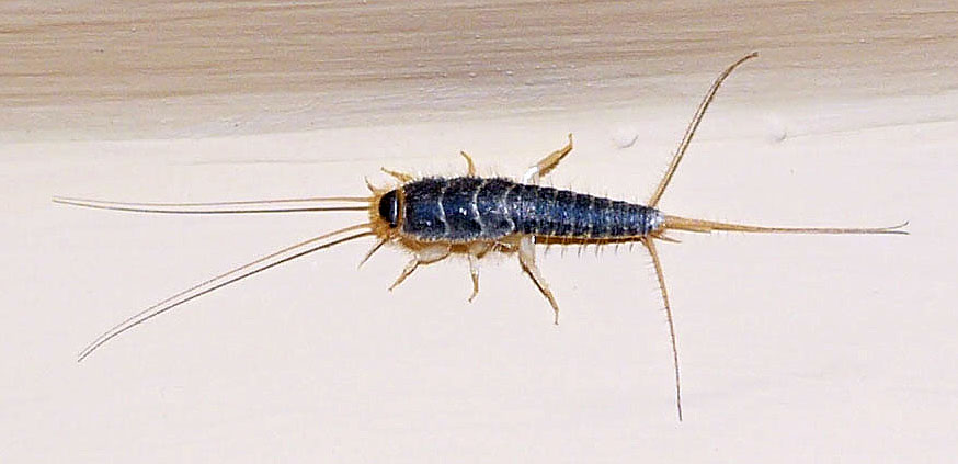 Ctenolepisma sp. possibly Ctenolepisma longicaudata??? impossible to say without a location specified.